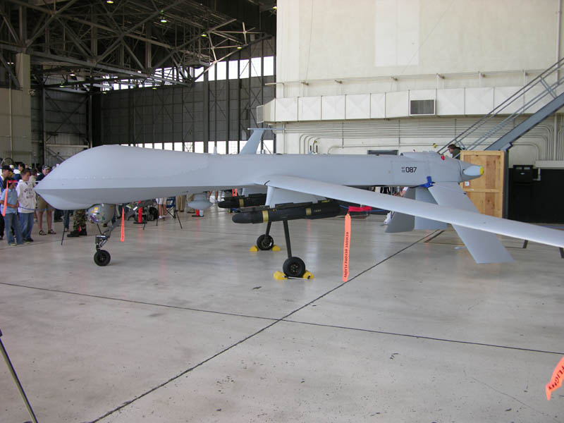 MQ-1 Predator on display at 2006 Edwards AFB open house